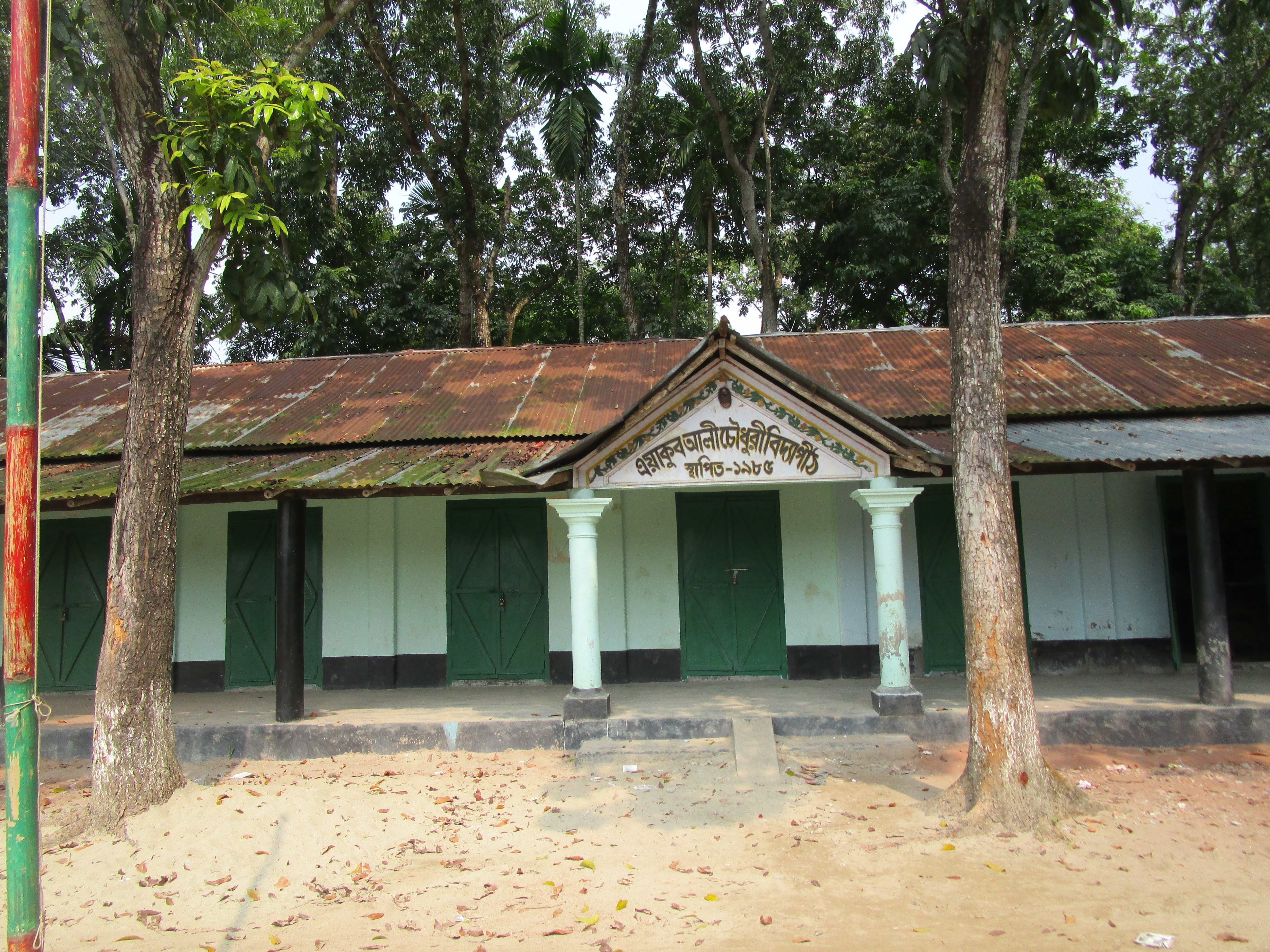 Eyakub Ali Chowdhury High School at Pangsha Upazila.